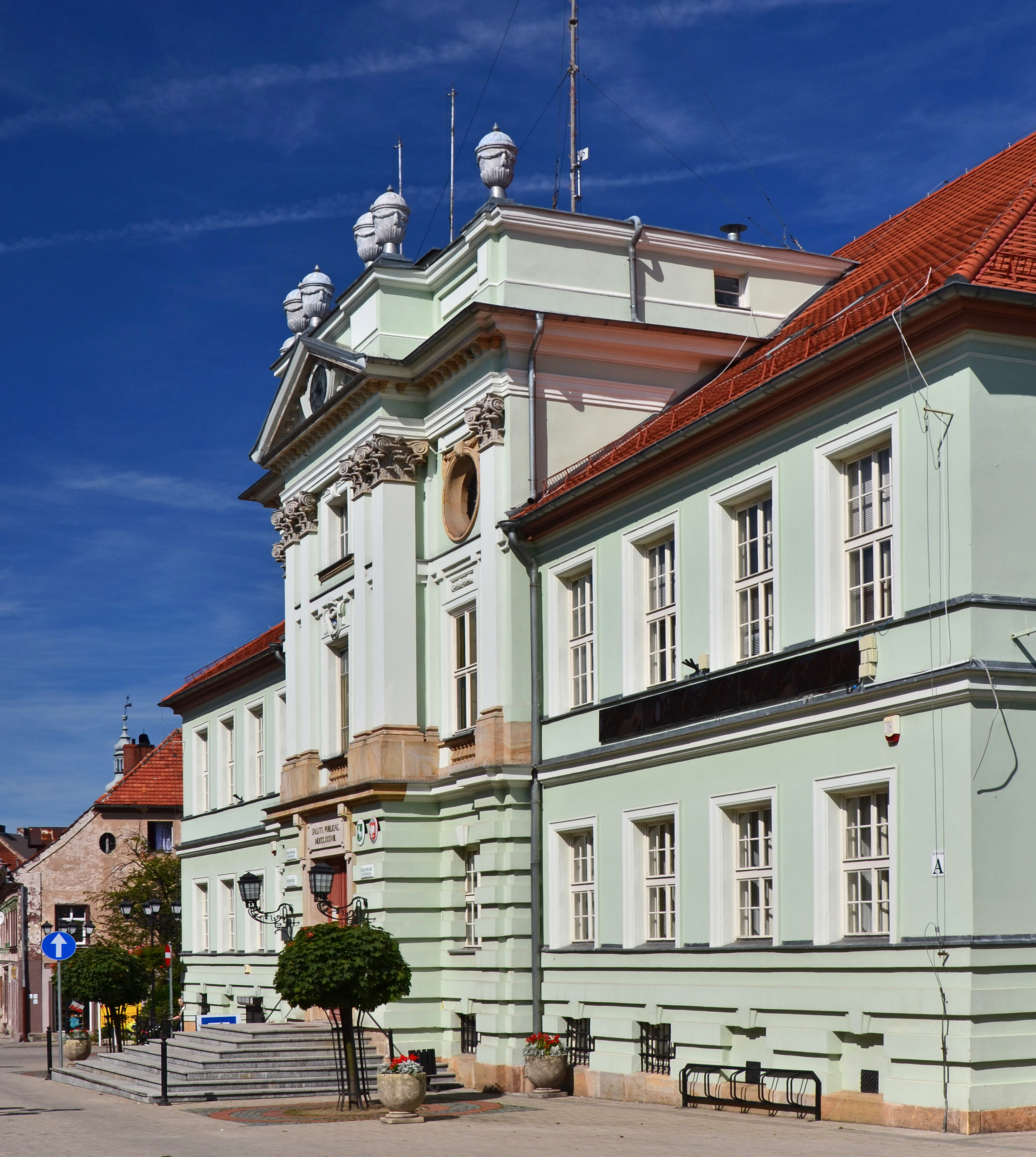 Town hall in Kowary. Poland.